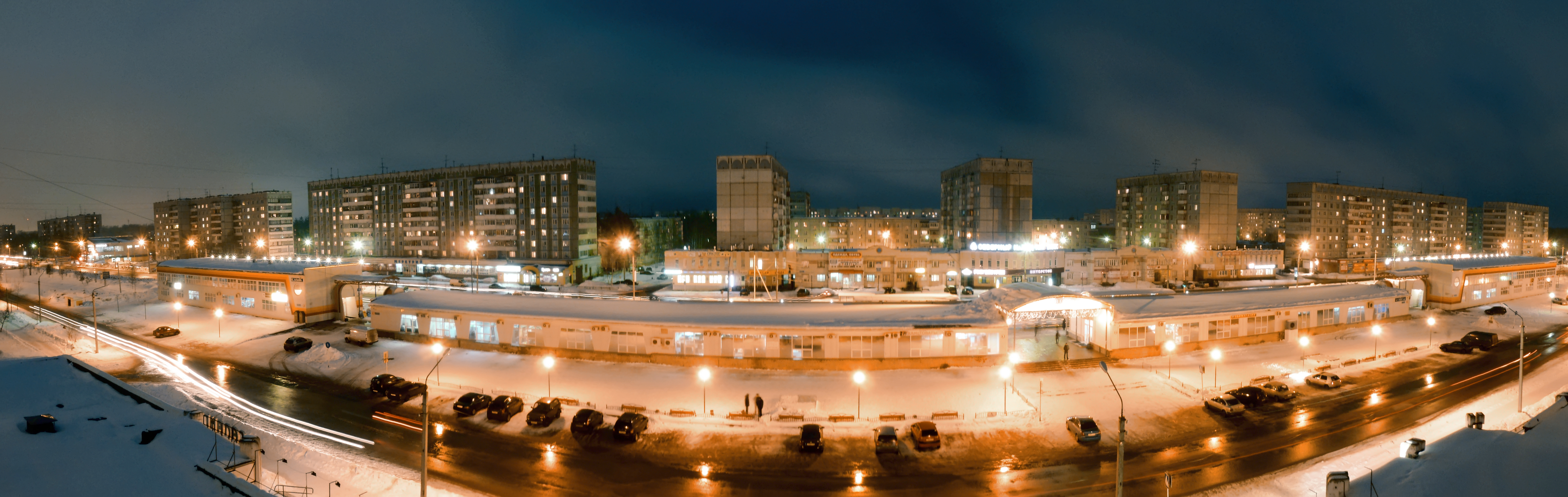 Панорамное фото 3 микрорайона Эжвинского Района г. Сыктывкара